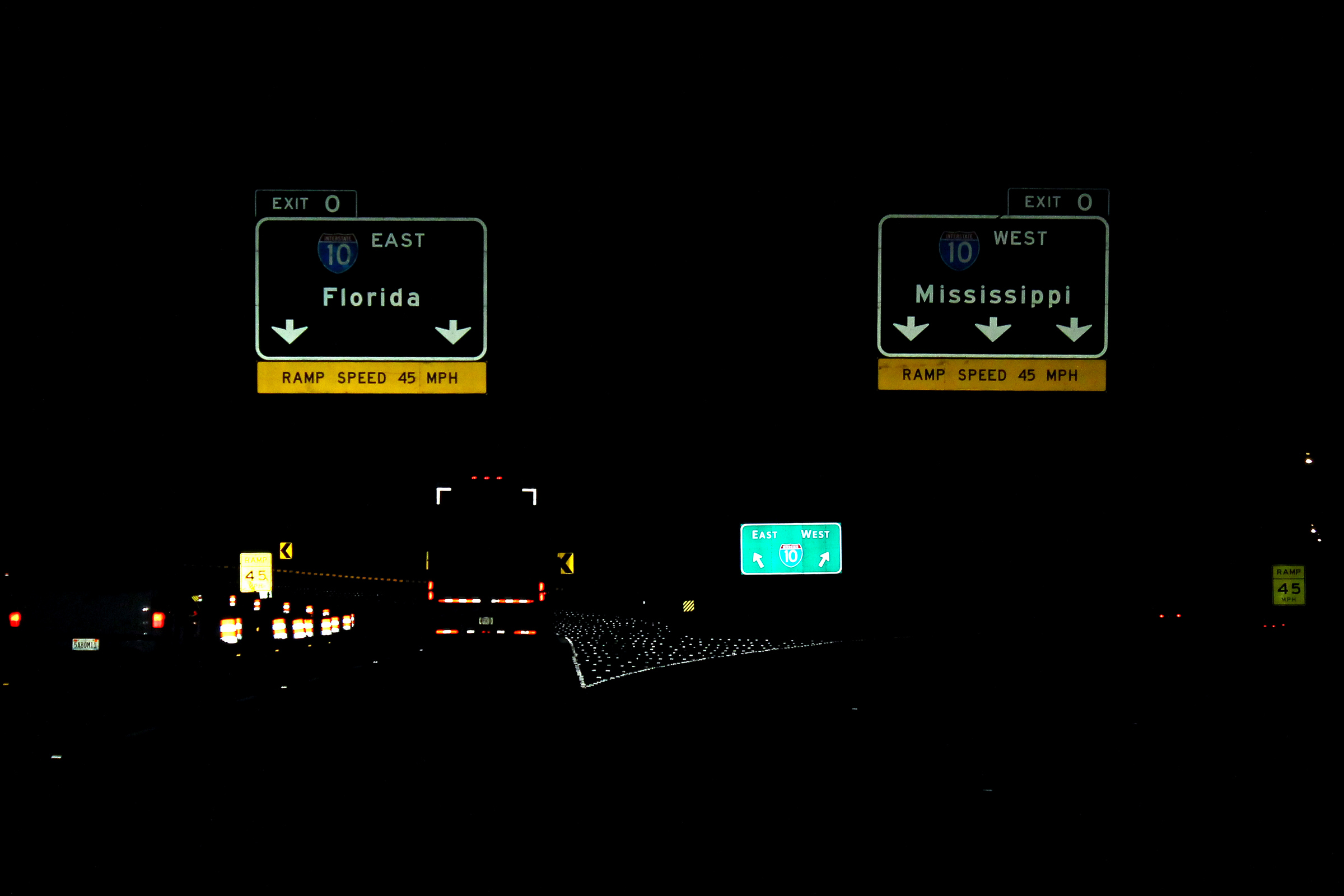 Night shot for the end of the big road.